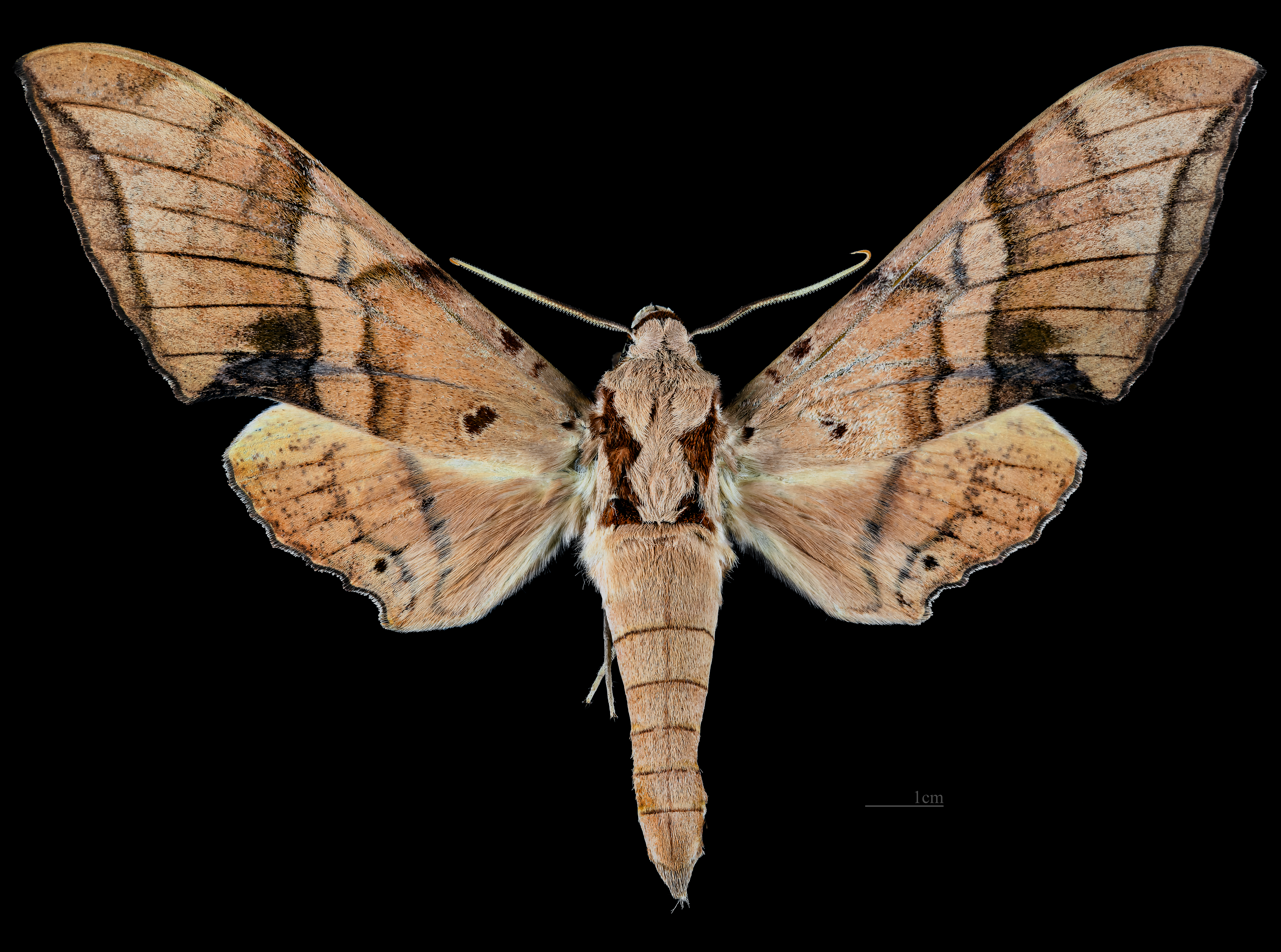 Ambulyx cyclasticta - Dorsal side Collection of the Mathematician Laurent Schwartz